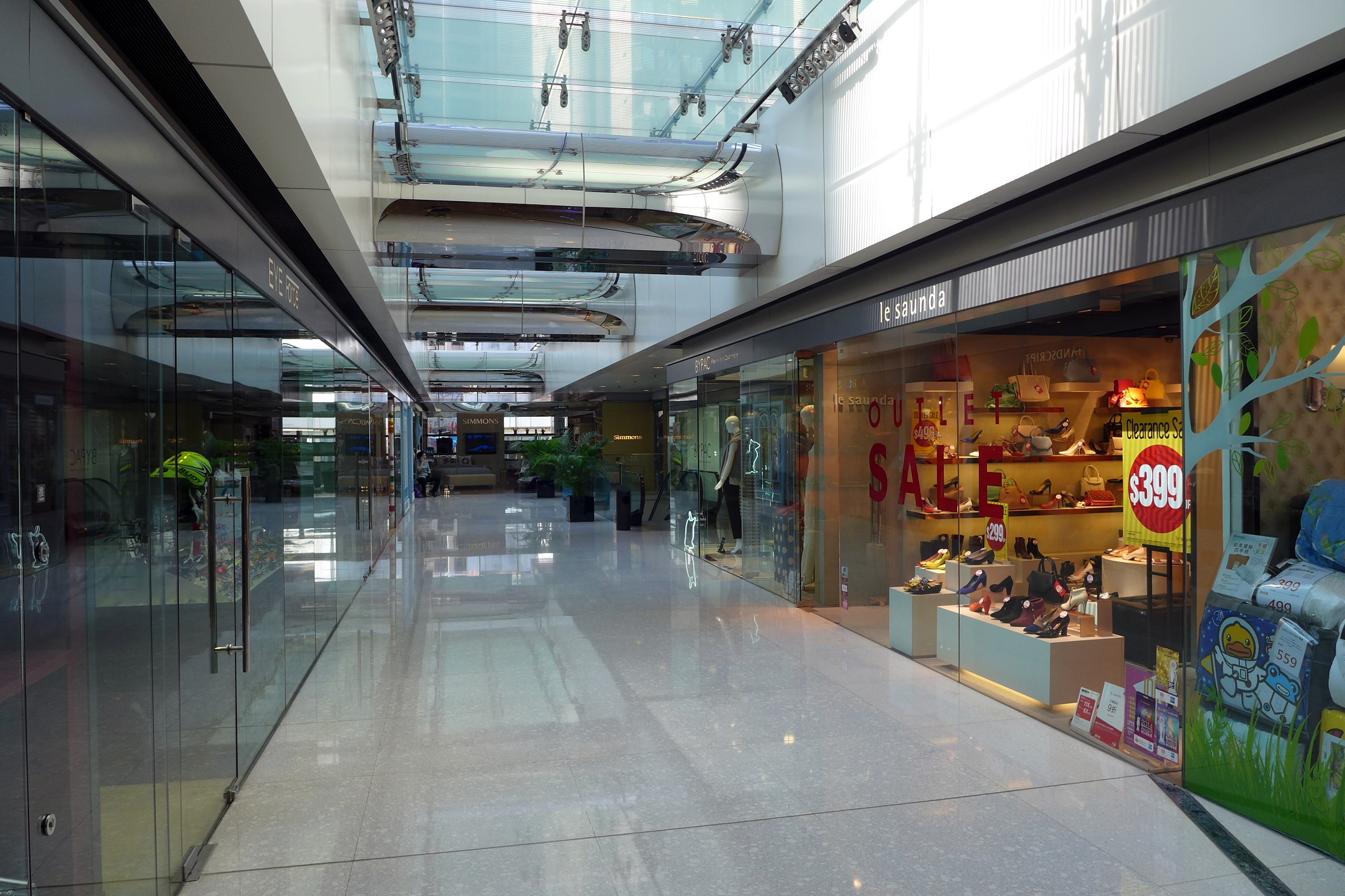 Man Yee Building Access